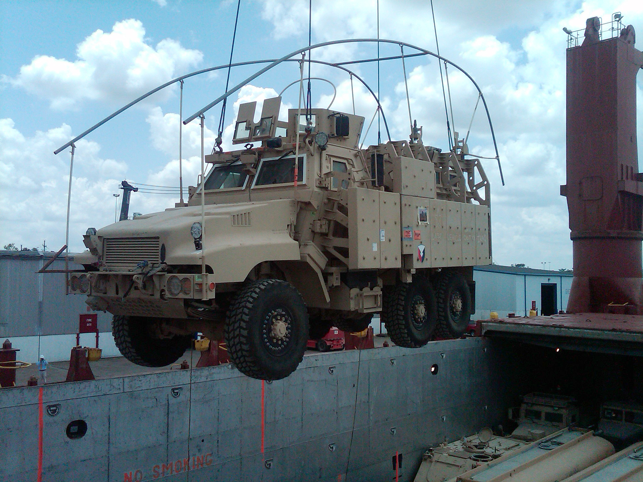 The last vehicle from Iraq returned to U.S. The vehicle is a MRAP and it arrived at the Port of Beaumont, Texas Sunday, May 6th and was unloaded from the ship on Monday, May 7th.